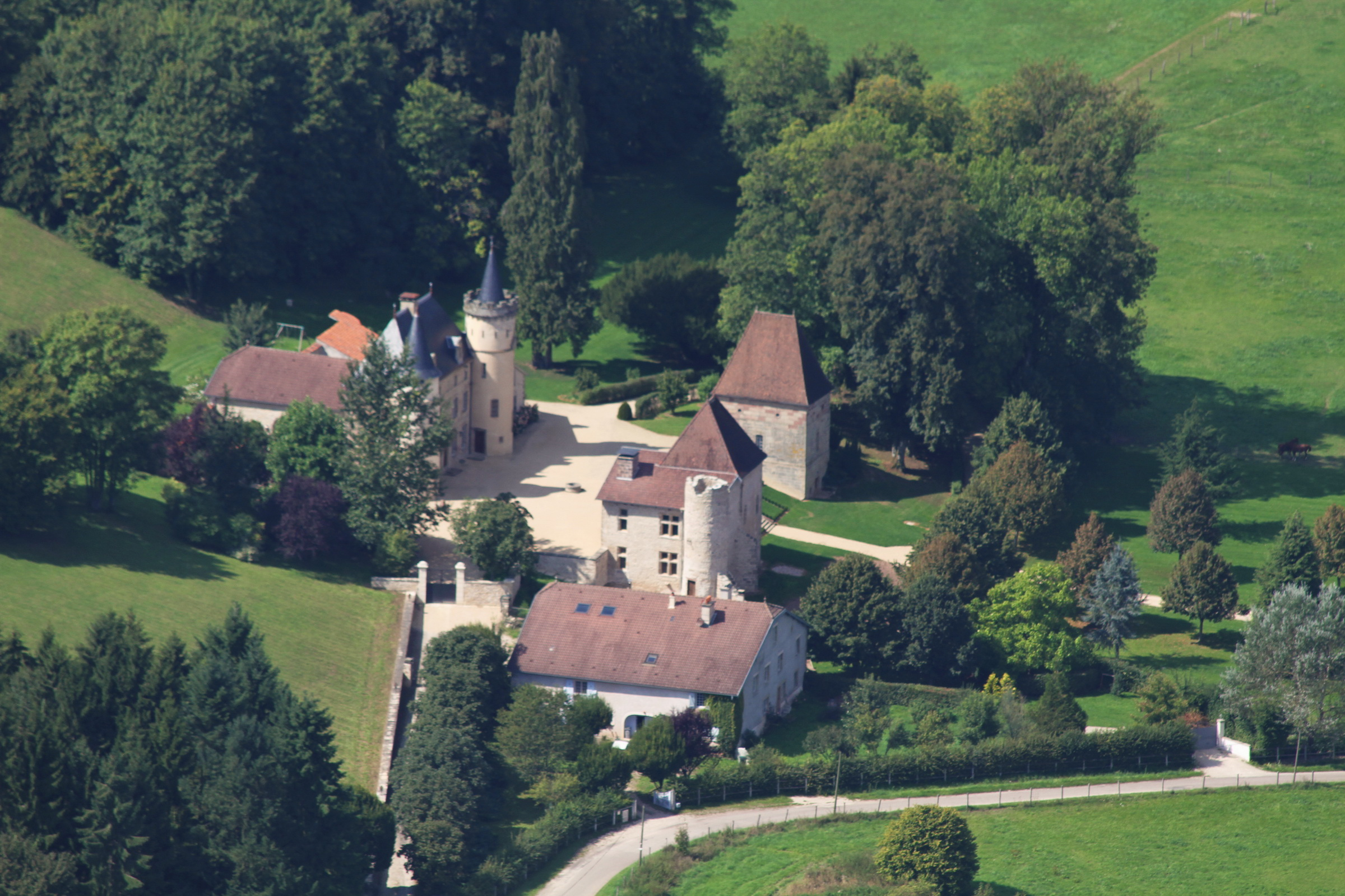 Castle of Lichecourt